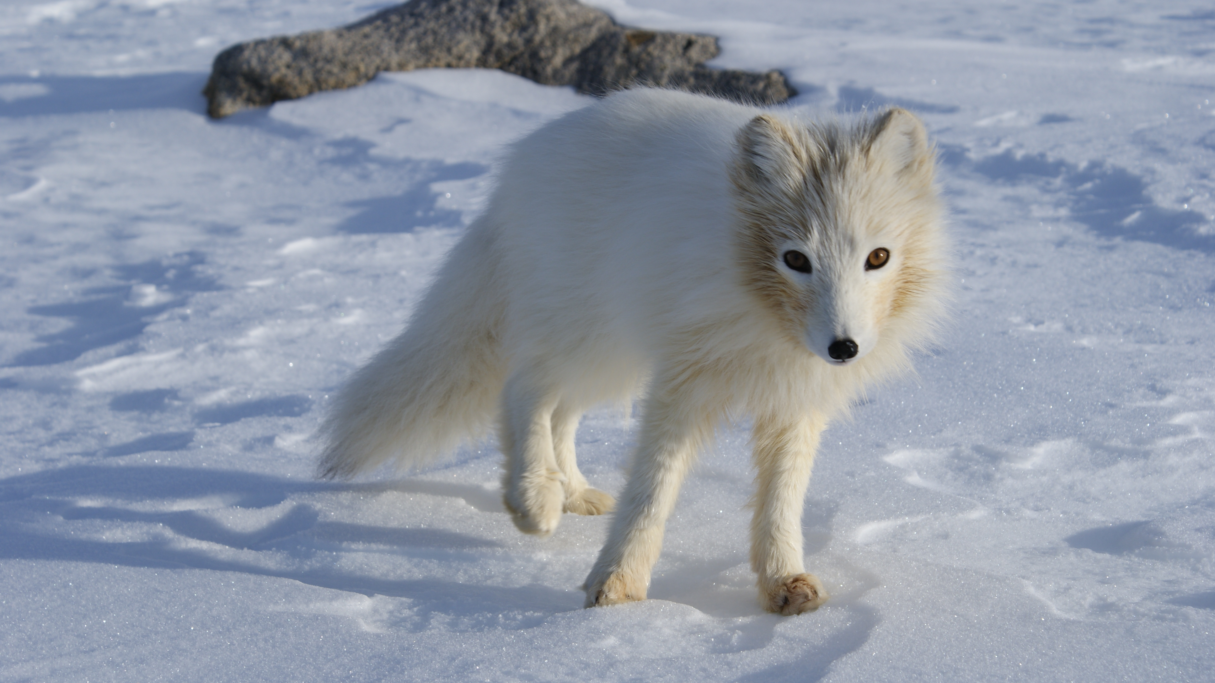 Terianniaq qaqortaq (Arctic Fox), photographed in Kulusuk, Greenland